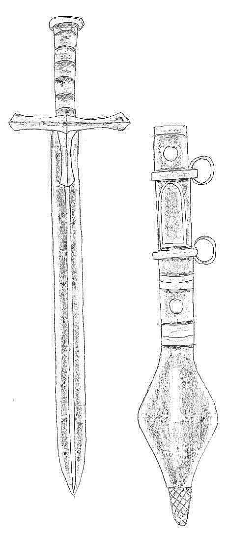 Kaskara Sword